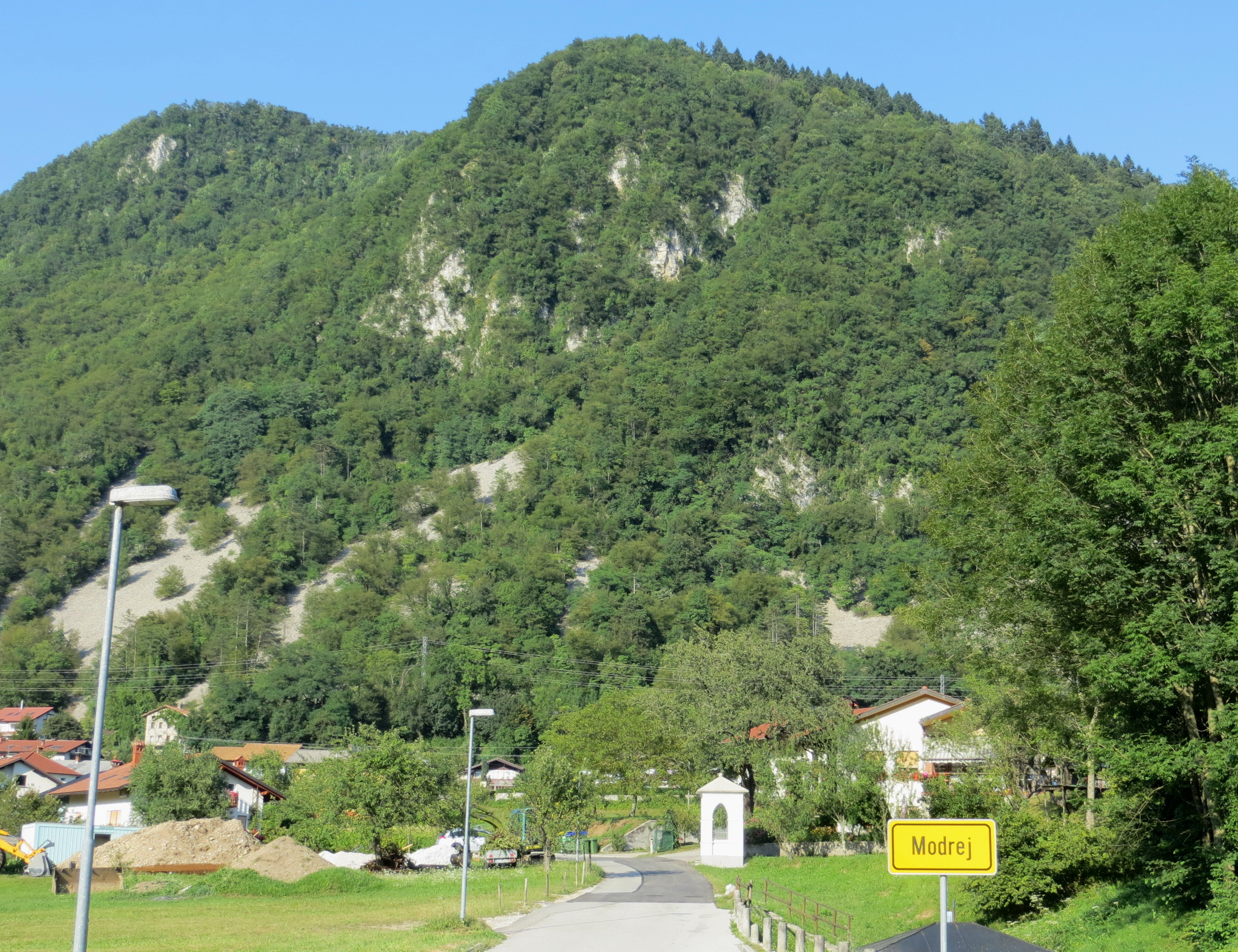 Modrej, Municipality of Tolmin, Slovenia